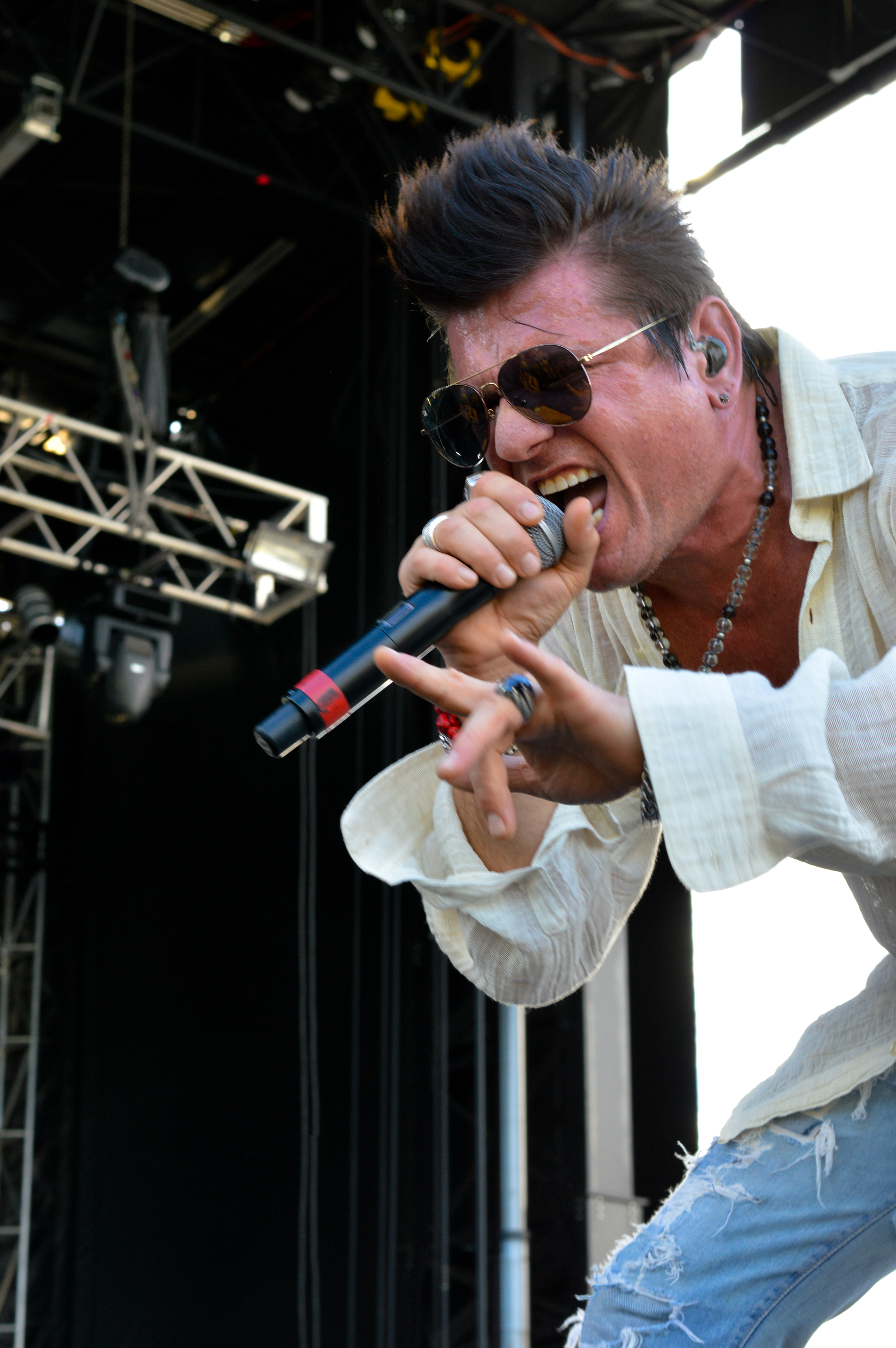 Miljenko Matijevic performs at Rockfest 80's on Nov. 4, 2017